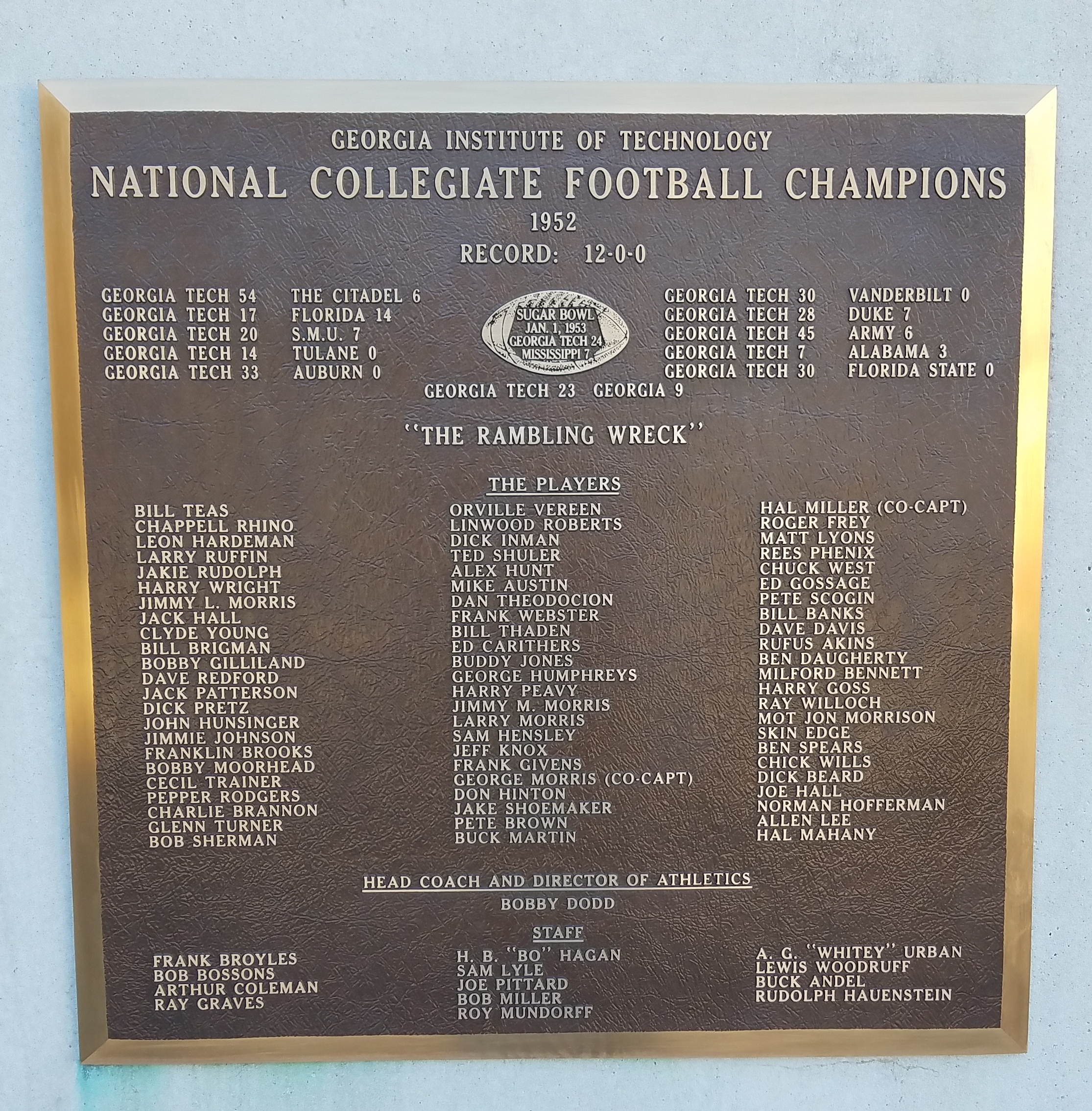 Plaque commemorating the 1952 Georgia Tech Yellow Jackets football national championship team.